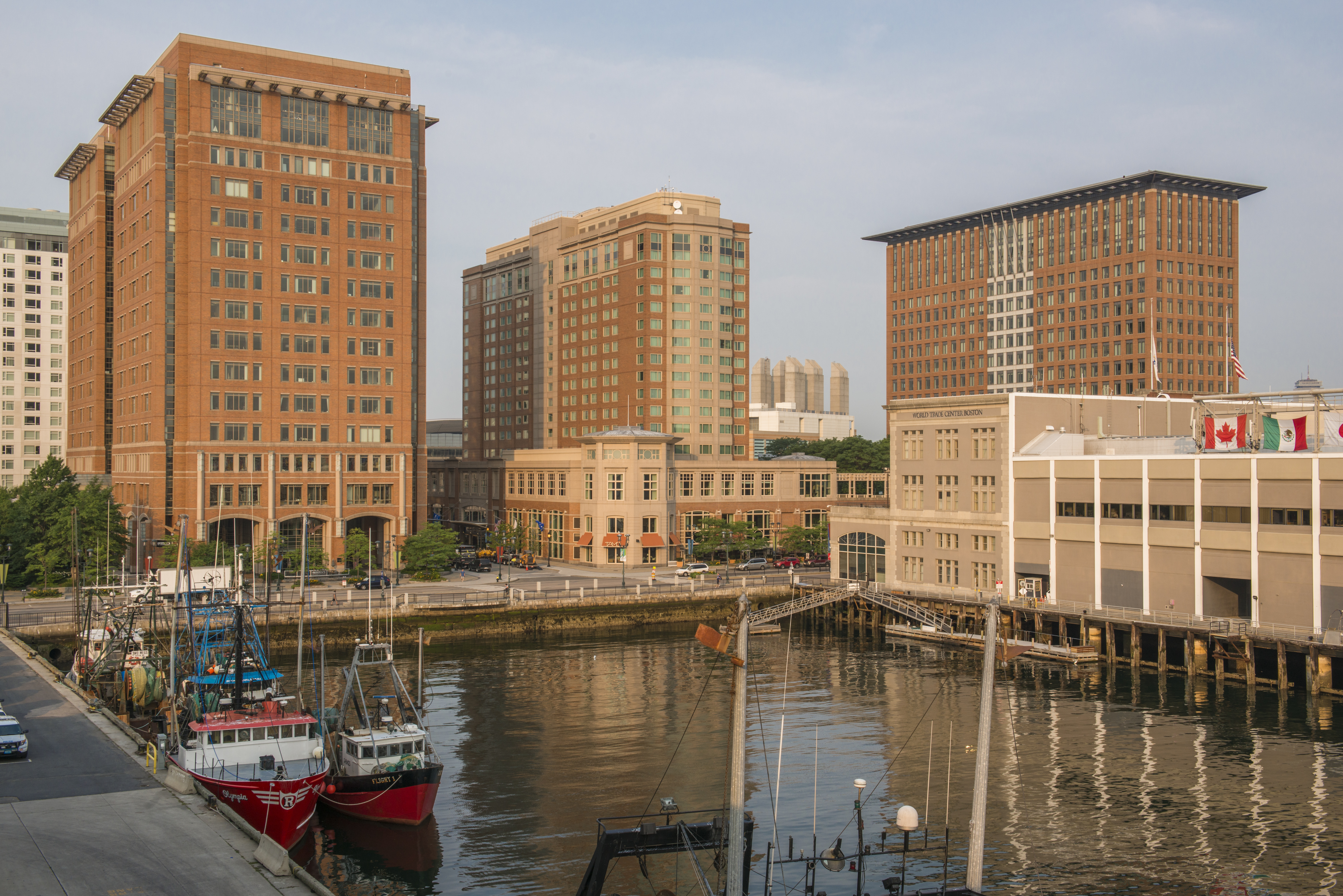 Exterior view of the Seaport Boston Hotel & World Trade Center, Boston, Massachusetts